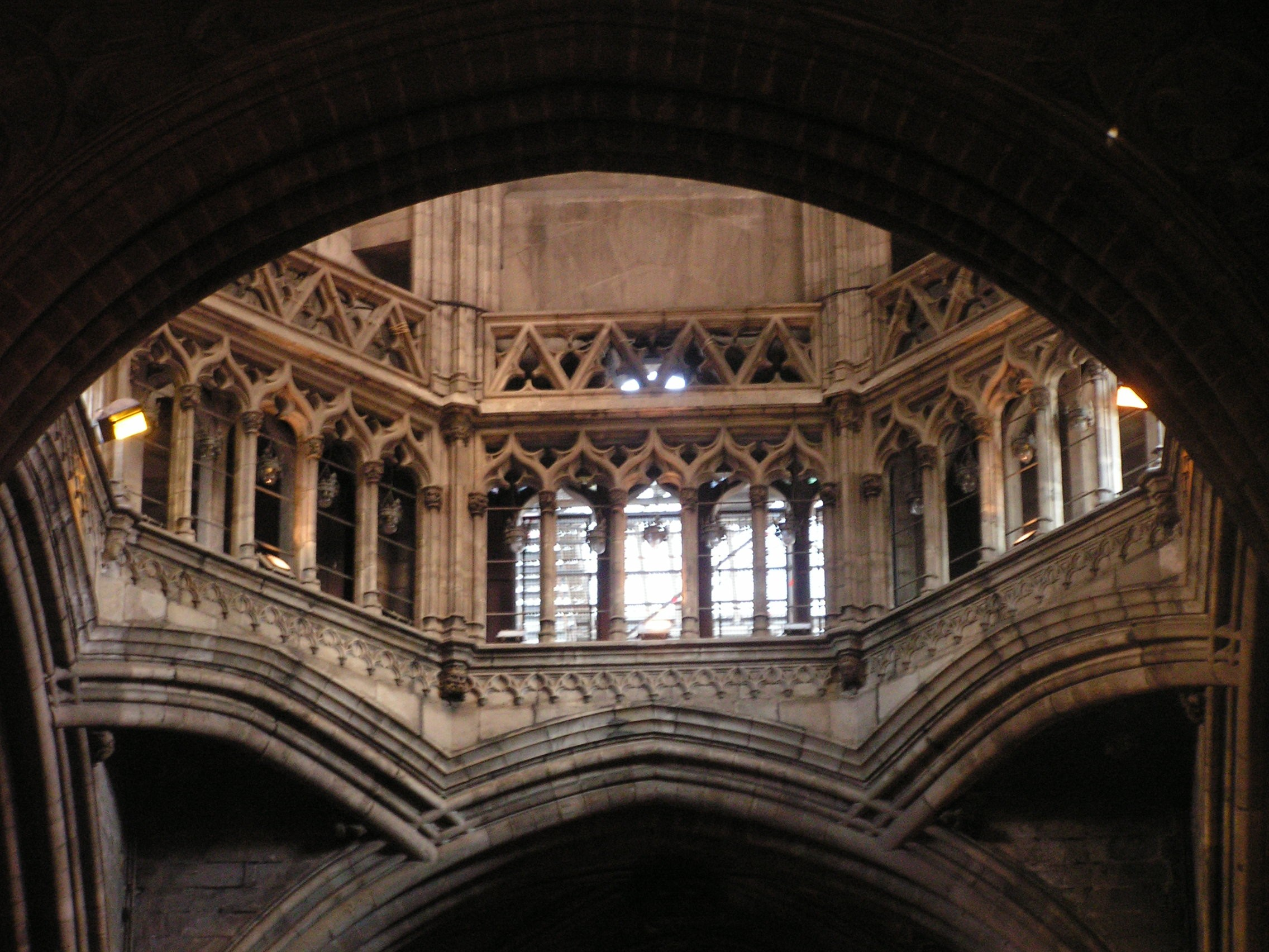 Cathedral of Santa Eulalia in Barcelona.